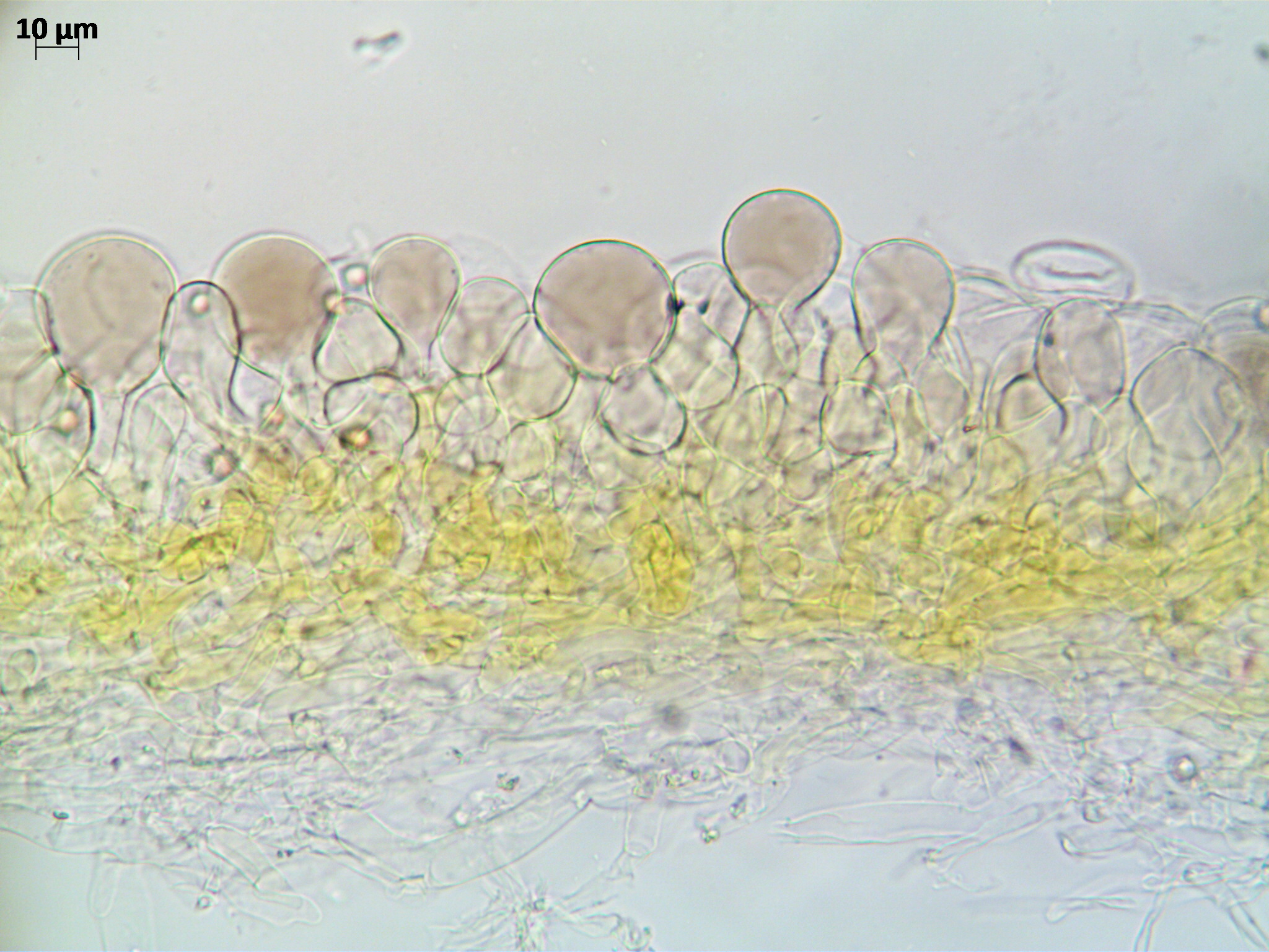 This is a very typical pileilellis cross-section for this species. I'm posting this for comparison with the mystery super-bright little Pluteus which keys out as P. chrysophaus but lacks any brown tones (the phaeo- in the Latin name stands for brown). The difference is apparent. The two species also differ in abundance and shape of pleurocystidia.